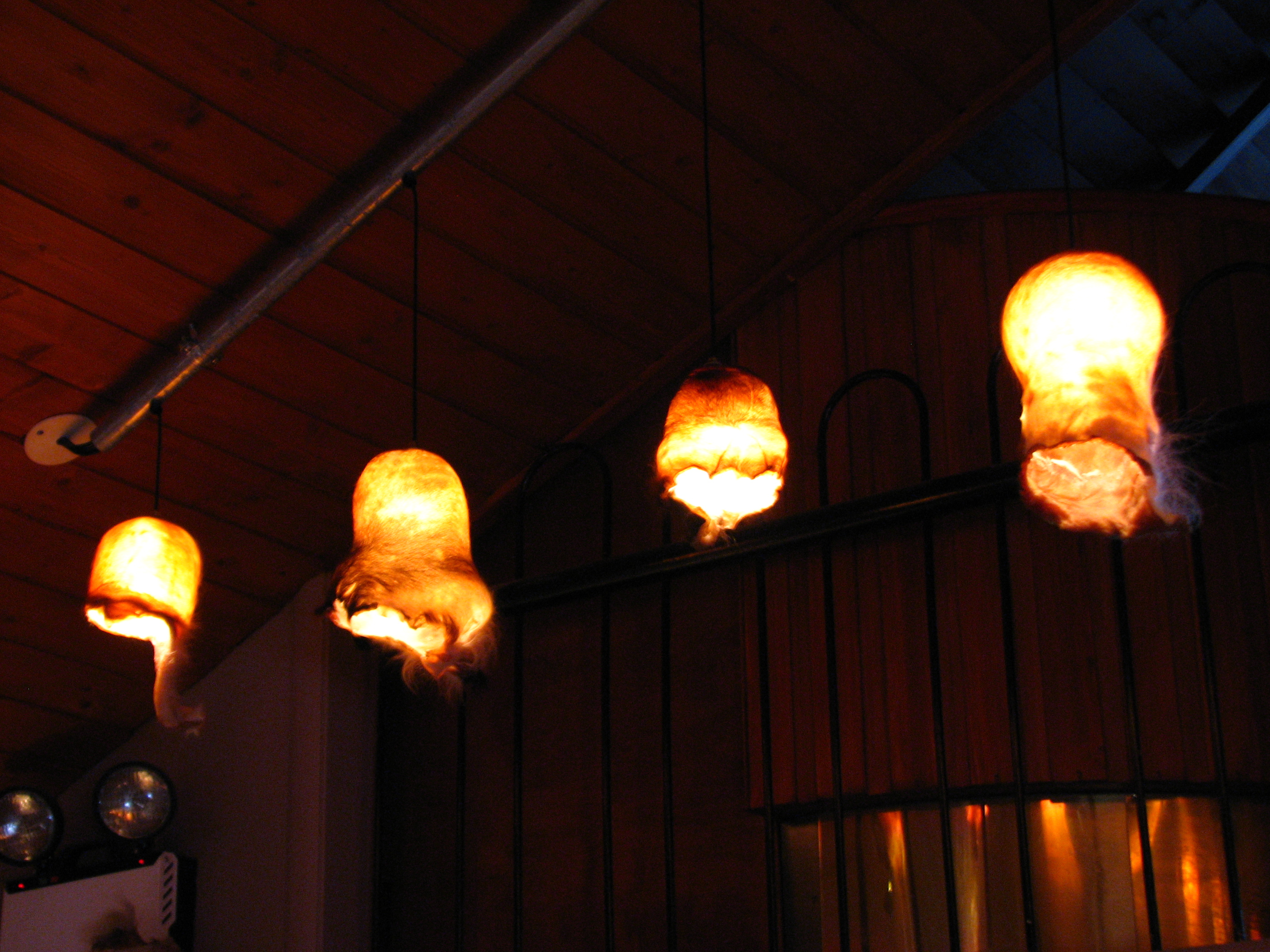 Icelandic Phallological Museum, H�sav�k, testicles, road trip, 2008-08 -- Iceland 1st Anniversary Trip